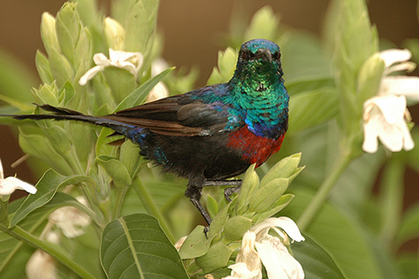 Uganda Red-chested Sunbird (Nectarinia erythrocerca)